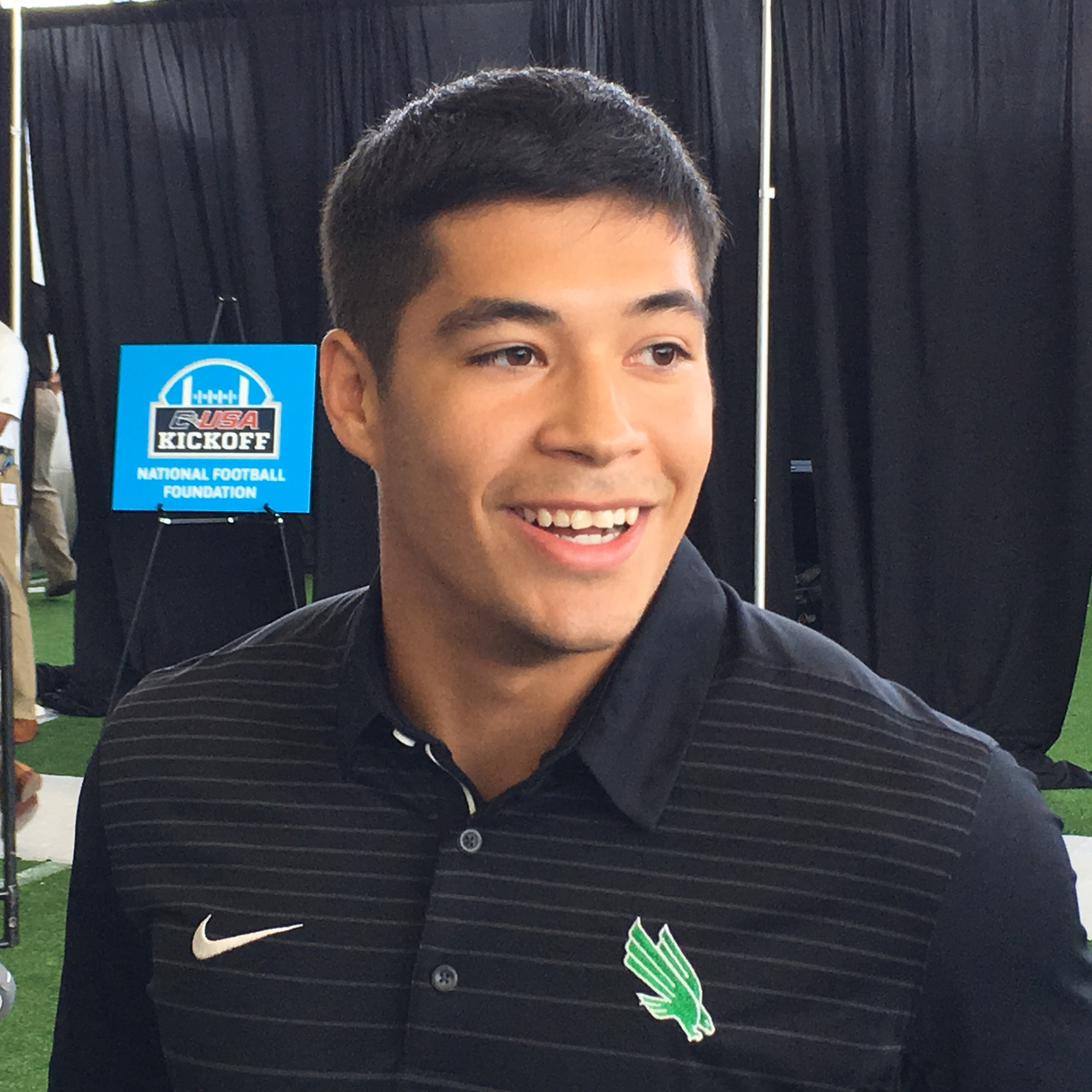 Mason Fine, quarterback for the North Texas Mean Green football team, at the 2018 Conference USA media days in Frisco, Texas.